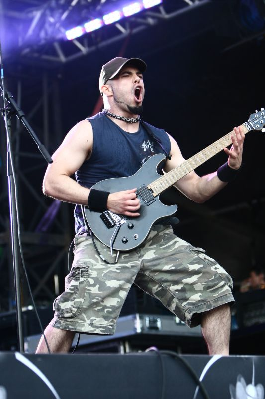 Cavalera Conspiracy at the Eurockéennes 2008